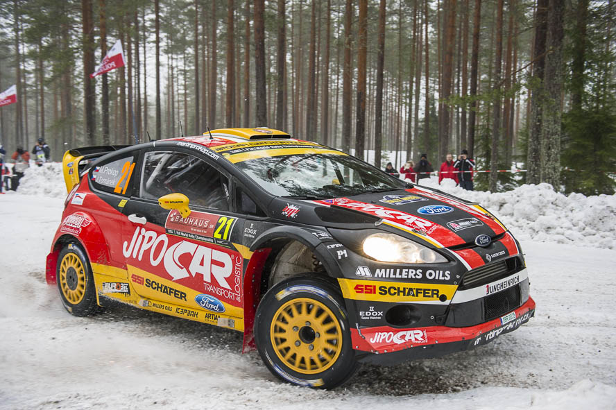 Rally Sweden 2014 Czech Ford National Team,Ford Fiesta RS WRC,Fredriksberg 1,Jan Tomanek,Jipocar Czech National Team,Martin Prokop,Motorsport,Rally,Rally Sweden,Rallye,Rallye Schweden,SS9,WP9